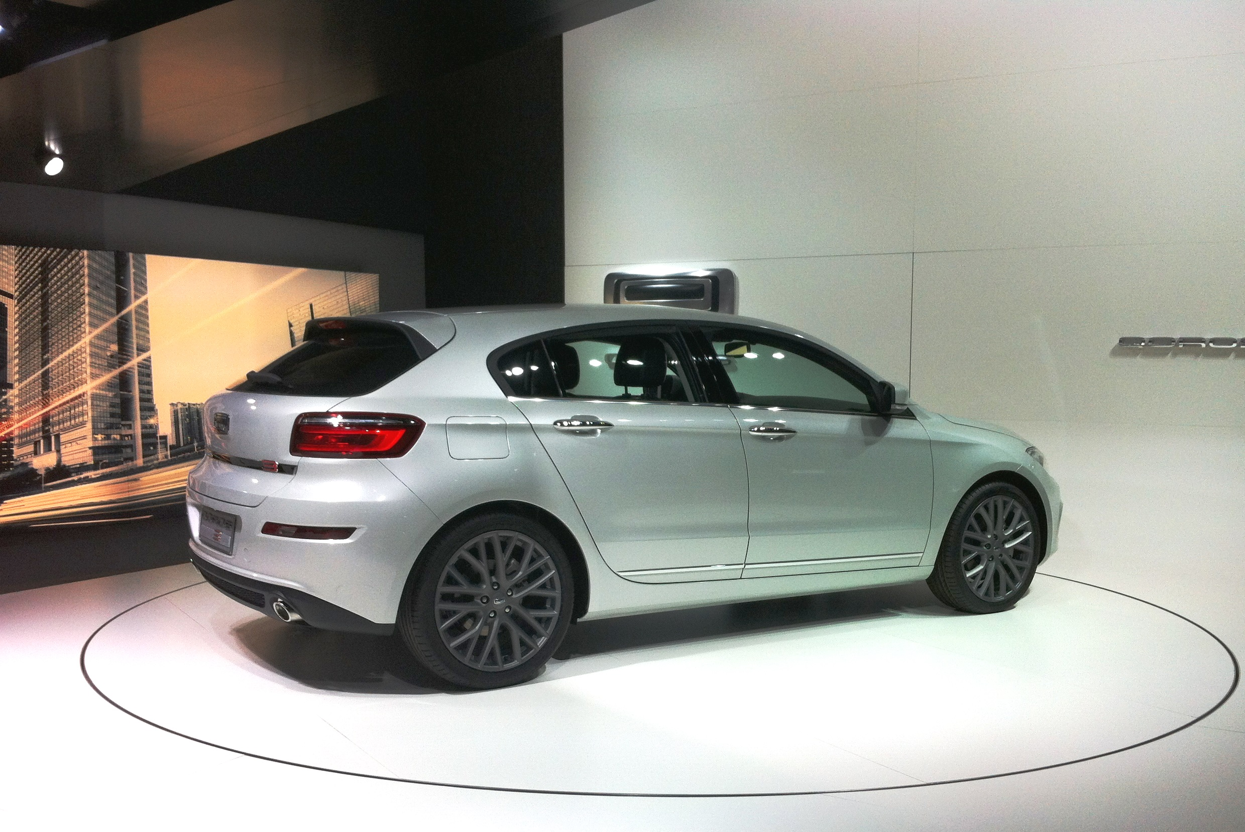 Qoros 3 Hatch at Geneva Motor Show 2014